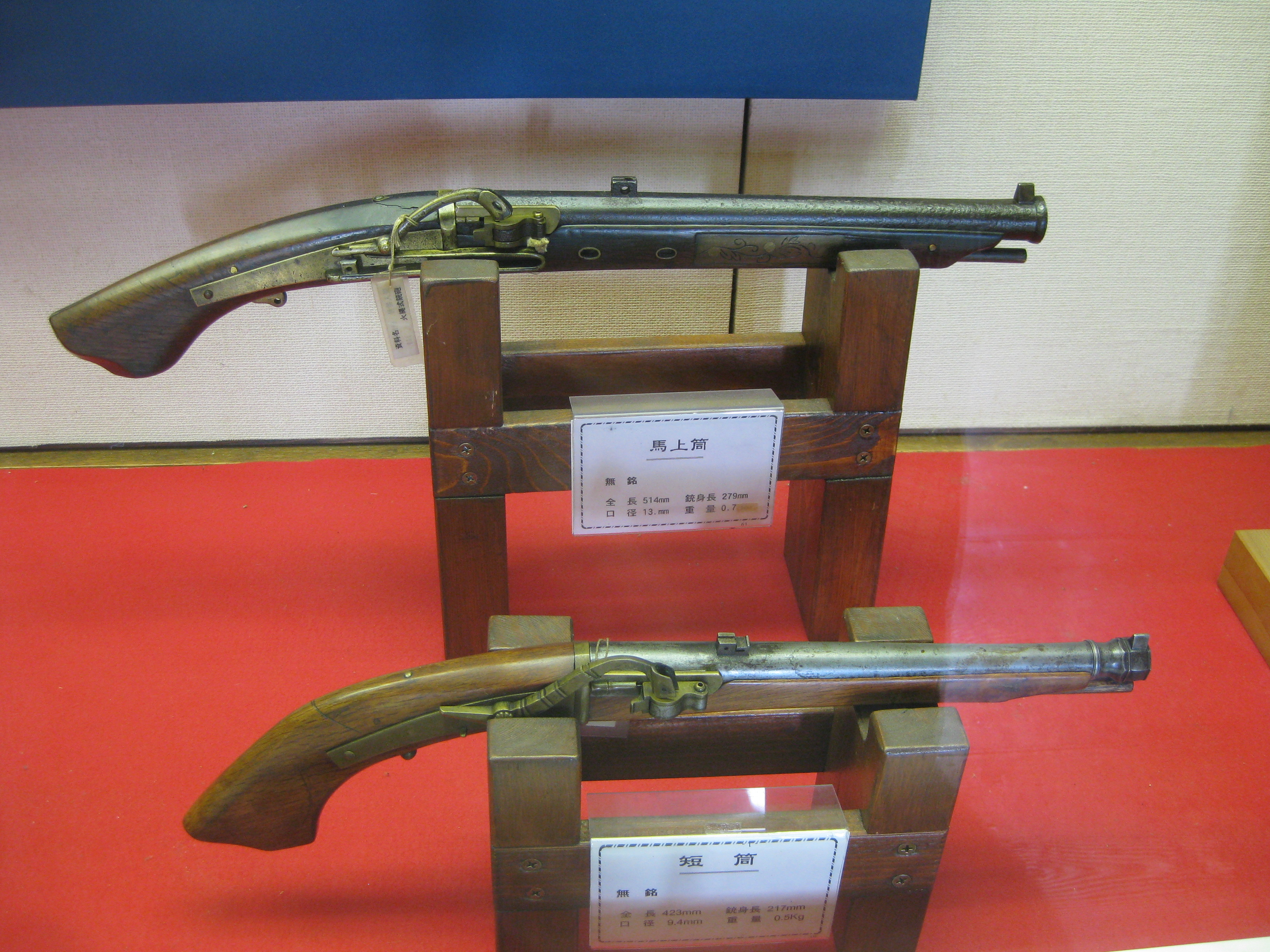 Antique Japanese (samurai) tanegashima (matchlock) pistols, Kumamoto Castle.